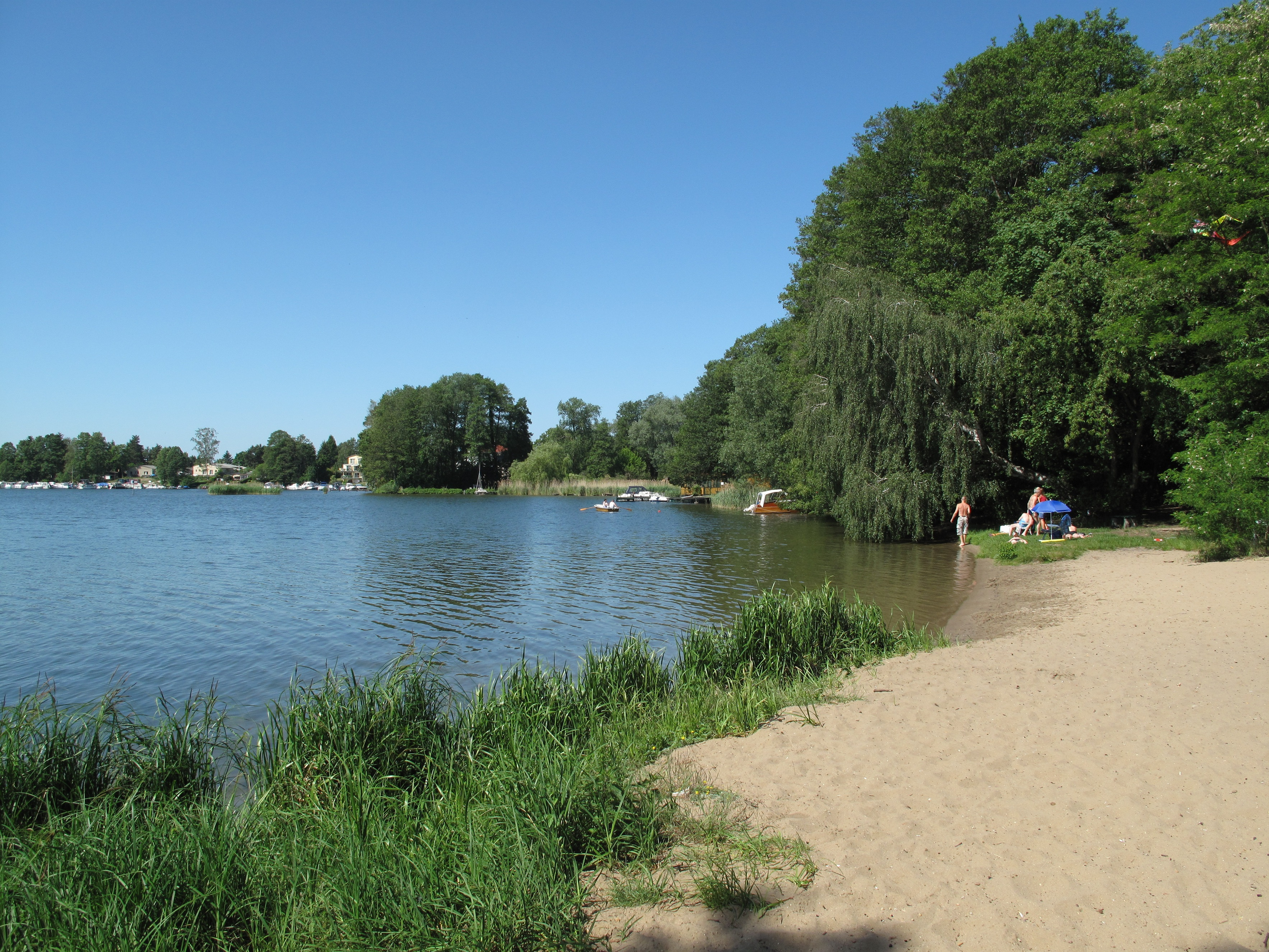 Beach on the north bank of the Werlsee. The Werlsee is a lake in Fangschleuse and Grünheide, parts of the municipality Grünheide, District Oder-Spree, Brandenburg, Germany. The lake covers 60 hectare.